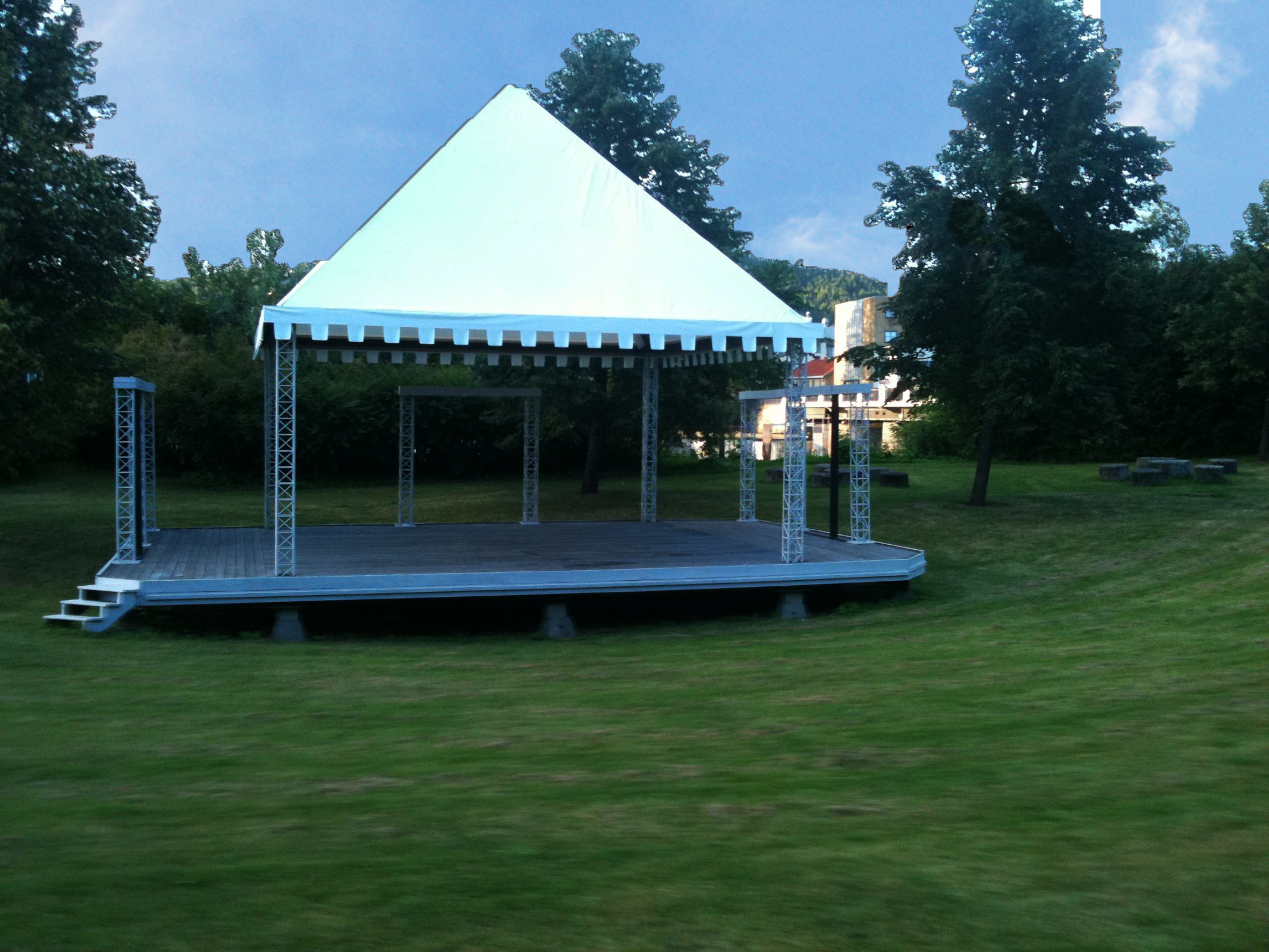 Pavescenen stage in Kongsberg, Norway